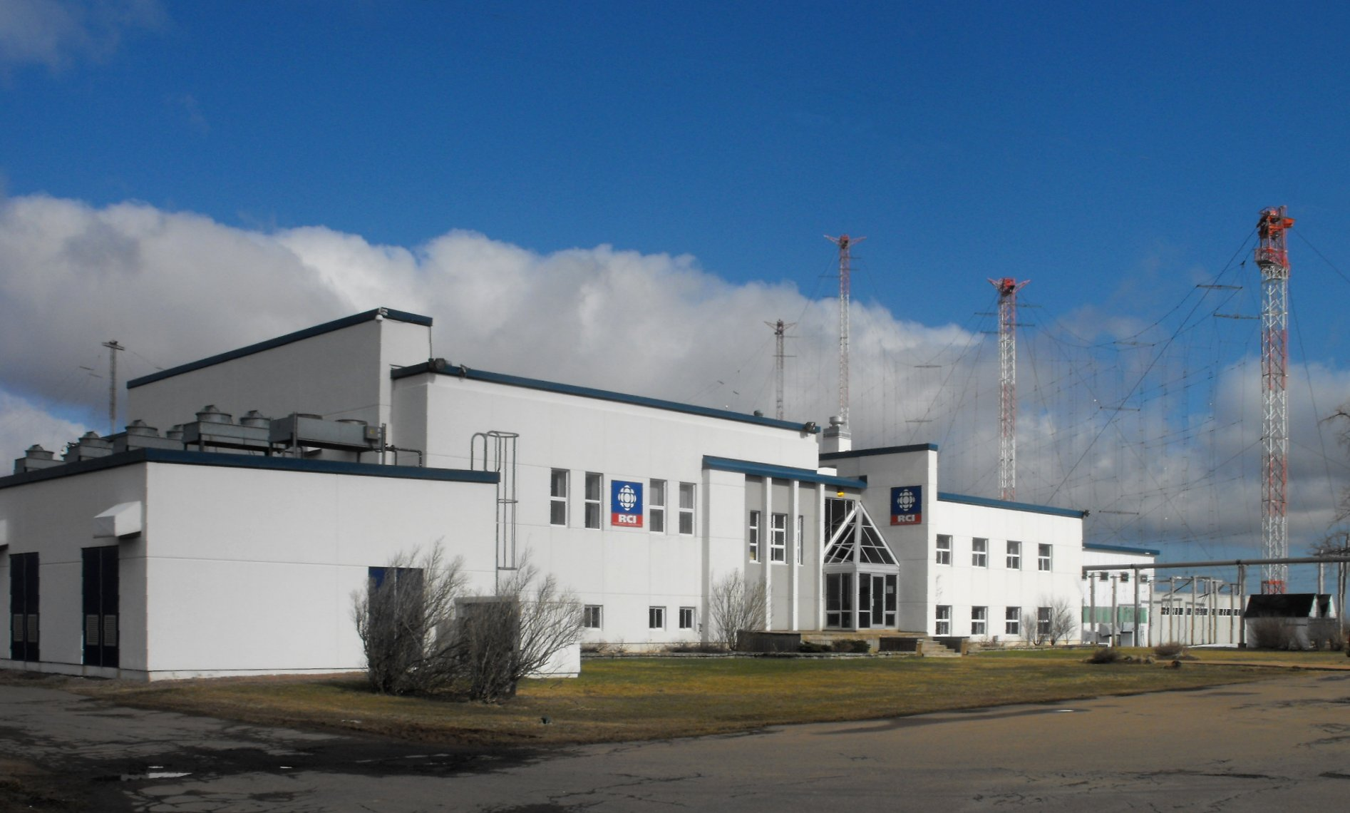 Radio Canada International Transmitter Station, Tantramar Marsh, New Brunswick, Canada